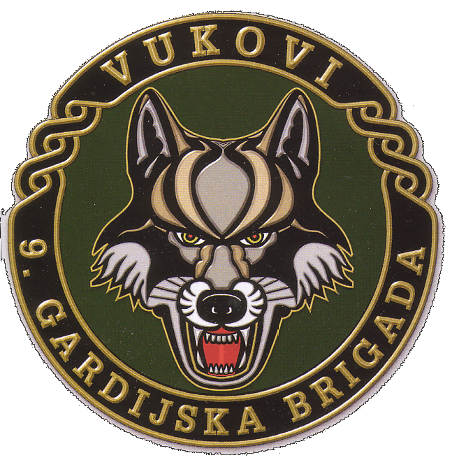 Badge of the regular Croatian military unit "Vukovi" (Wolves) during the War of Independence